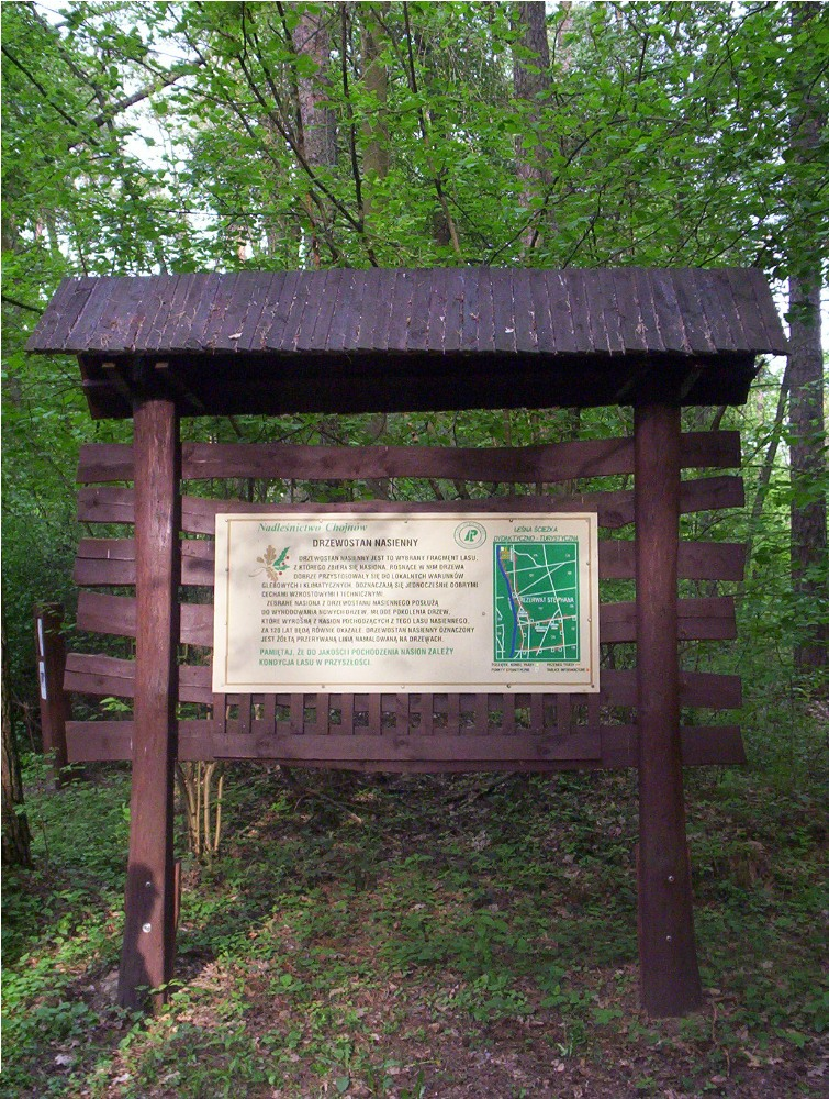 Educational trail in Chojnowski Park Krajobrazowy, Poland.